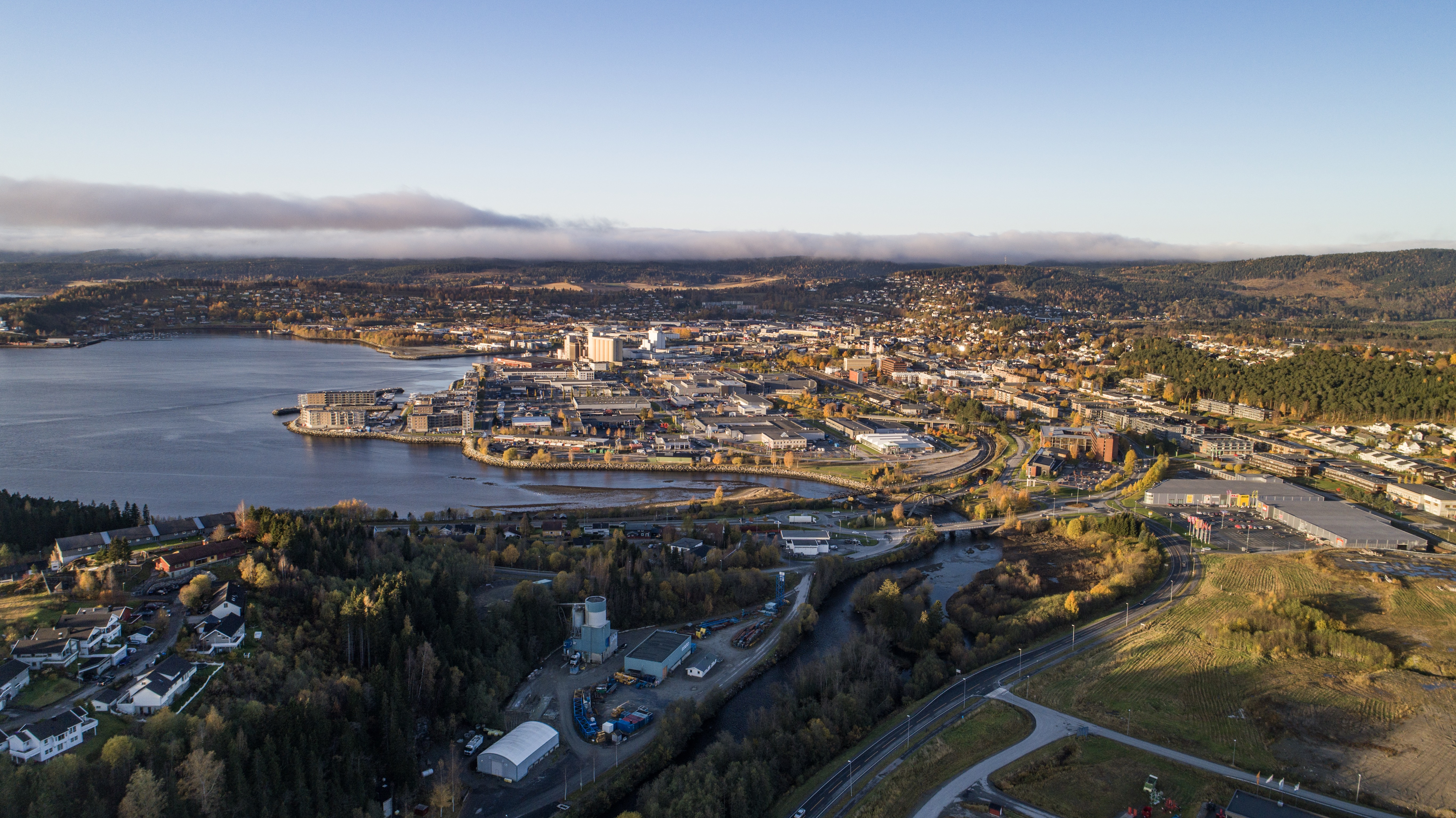 Steinkjer, Trøndelag, Norway, 2017